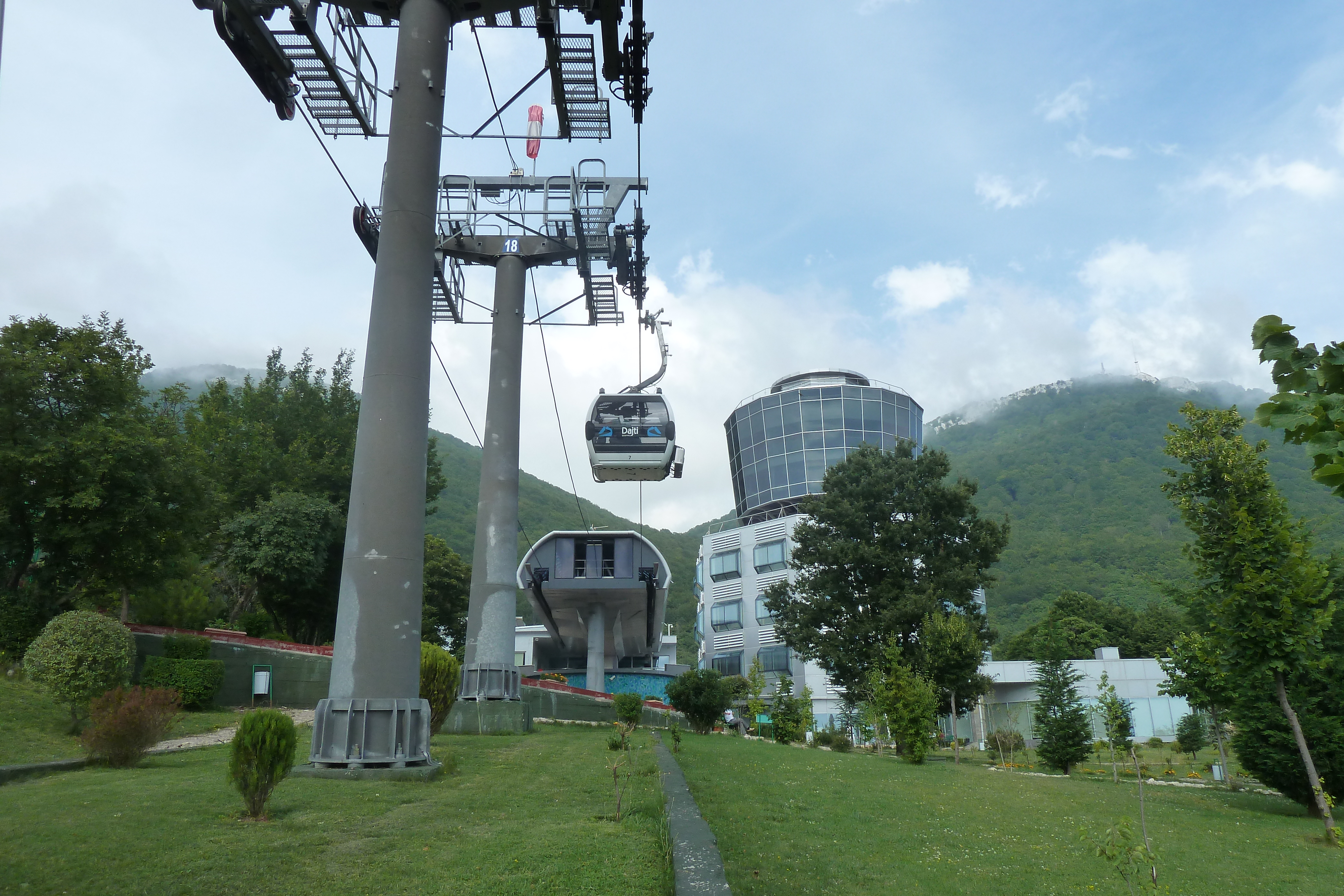 Dajti-Express, Tirana. Top point complex.